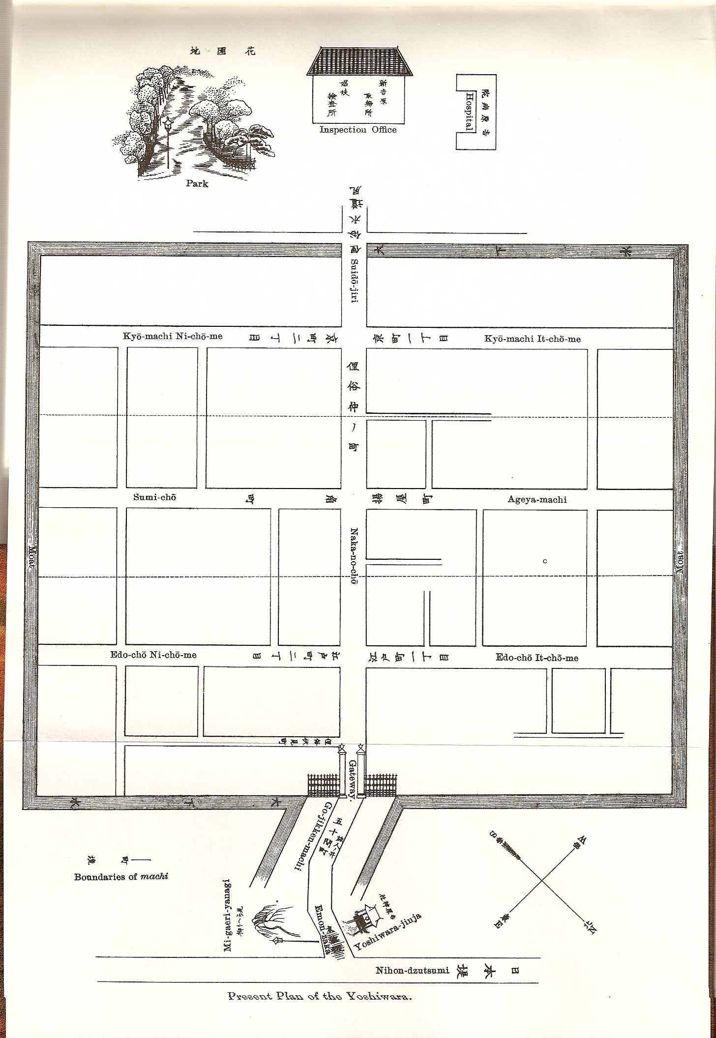 Map of Edo, Japan's Yoshiwara redlight district in 1905.